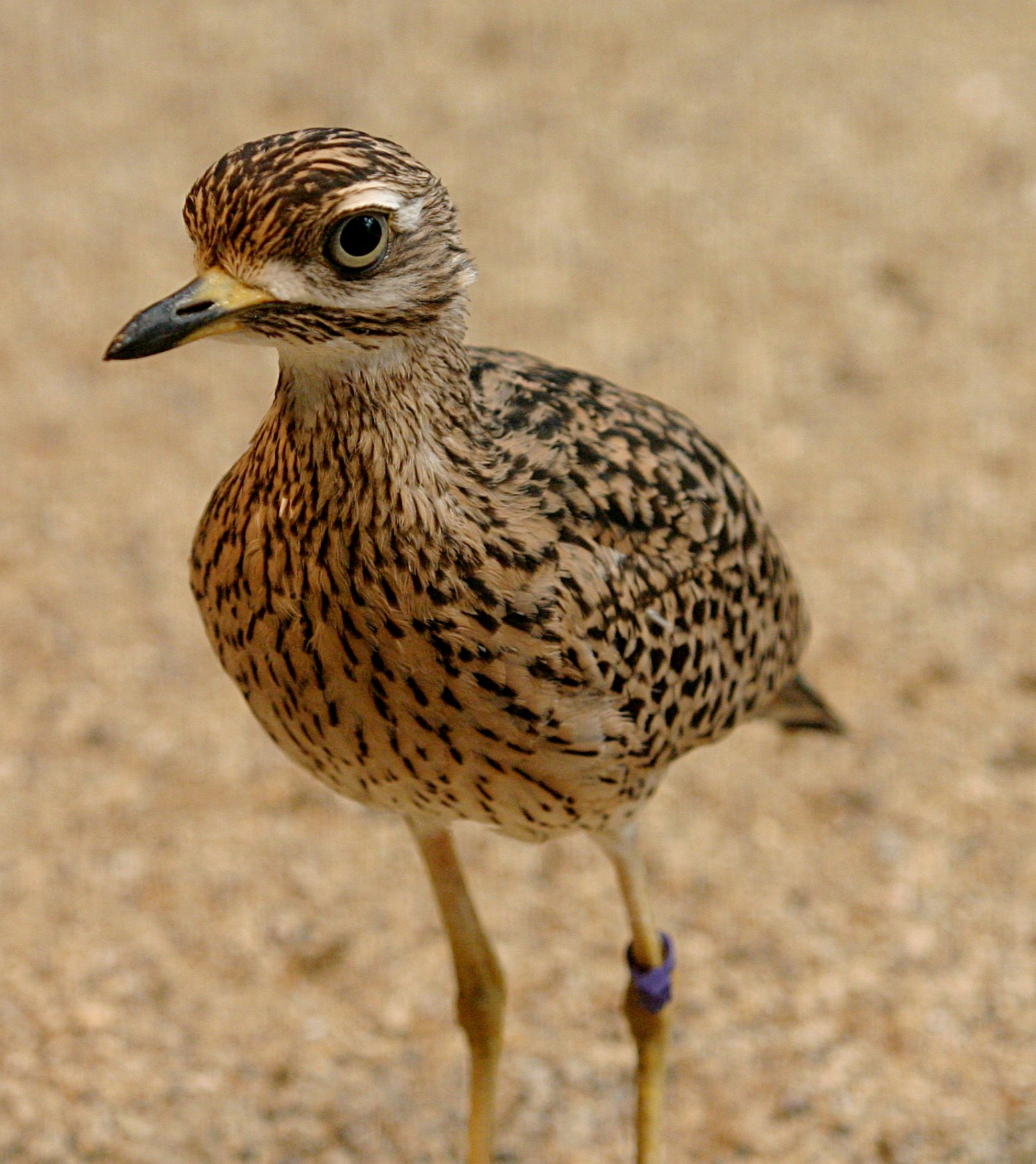 Cap Thick-knee (Spotted Dikkop) at the Milwaukee County Zoological Gardens in Milwaukee, Wisconsin.